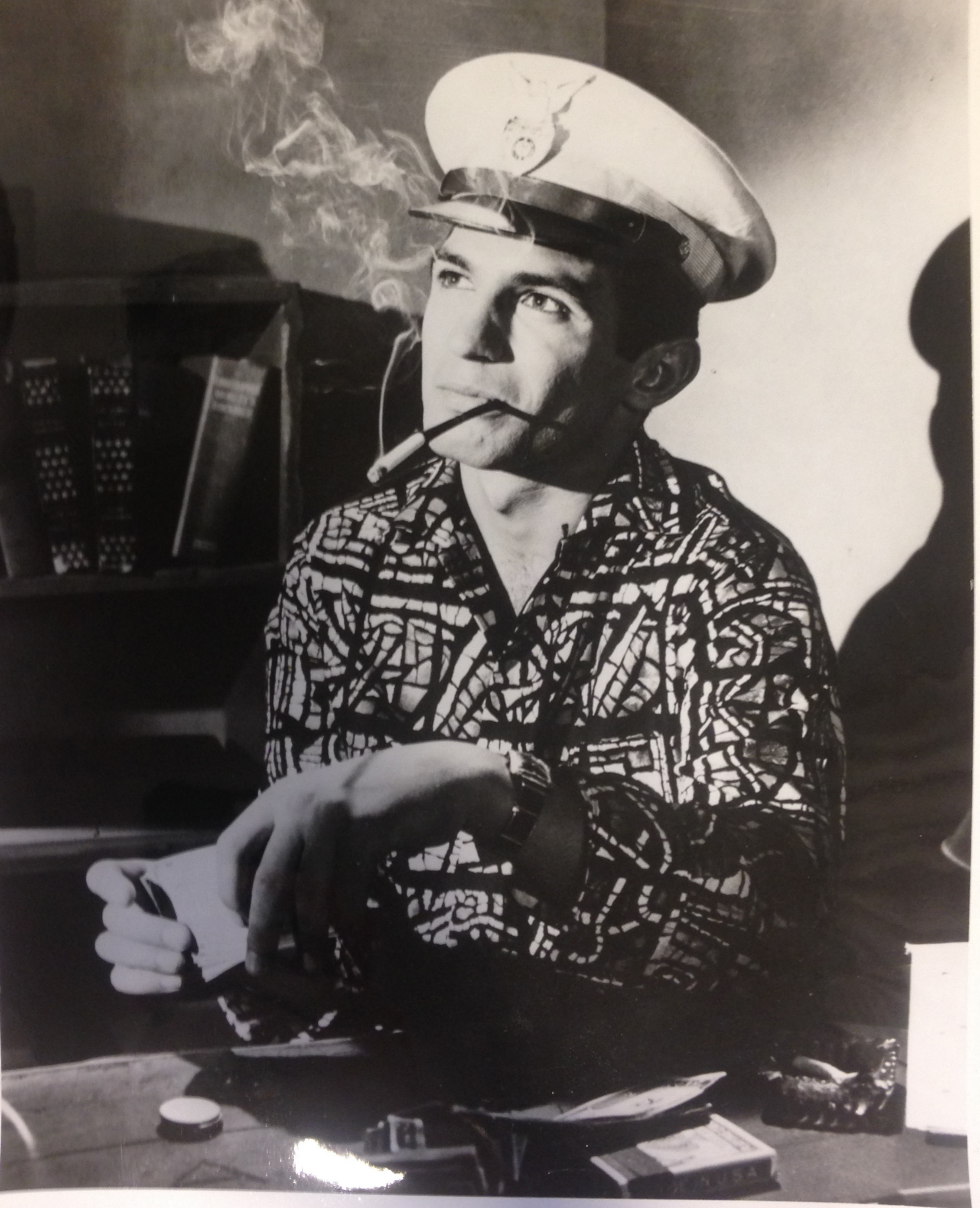 Ben Gazarra in the Strange One